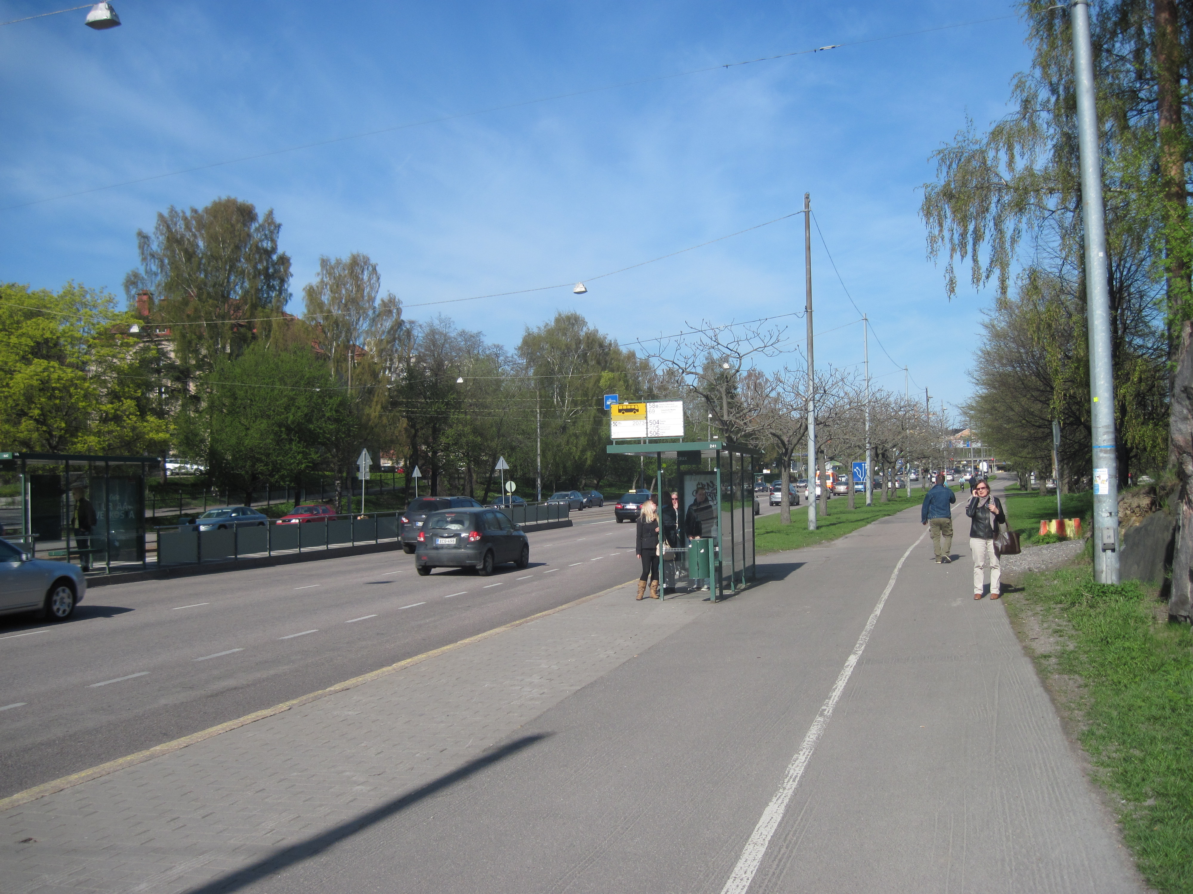 Nordenskiöldinkatu, Helsinki, Eastern part. On the left, the Aurora Hospital.